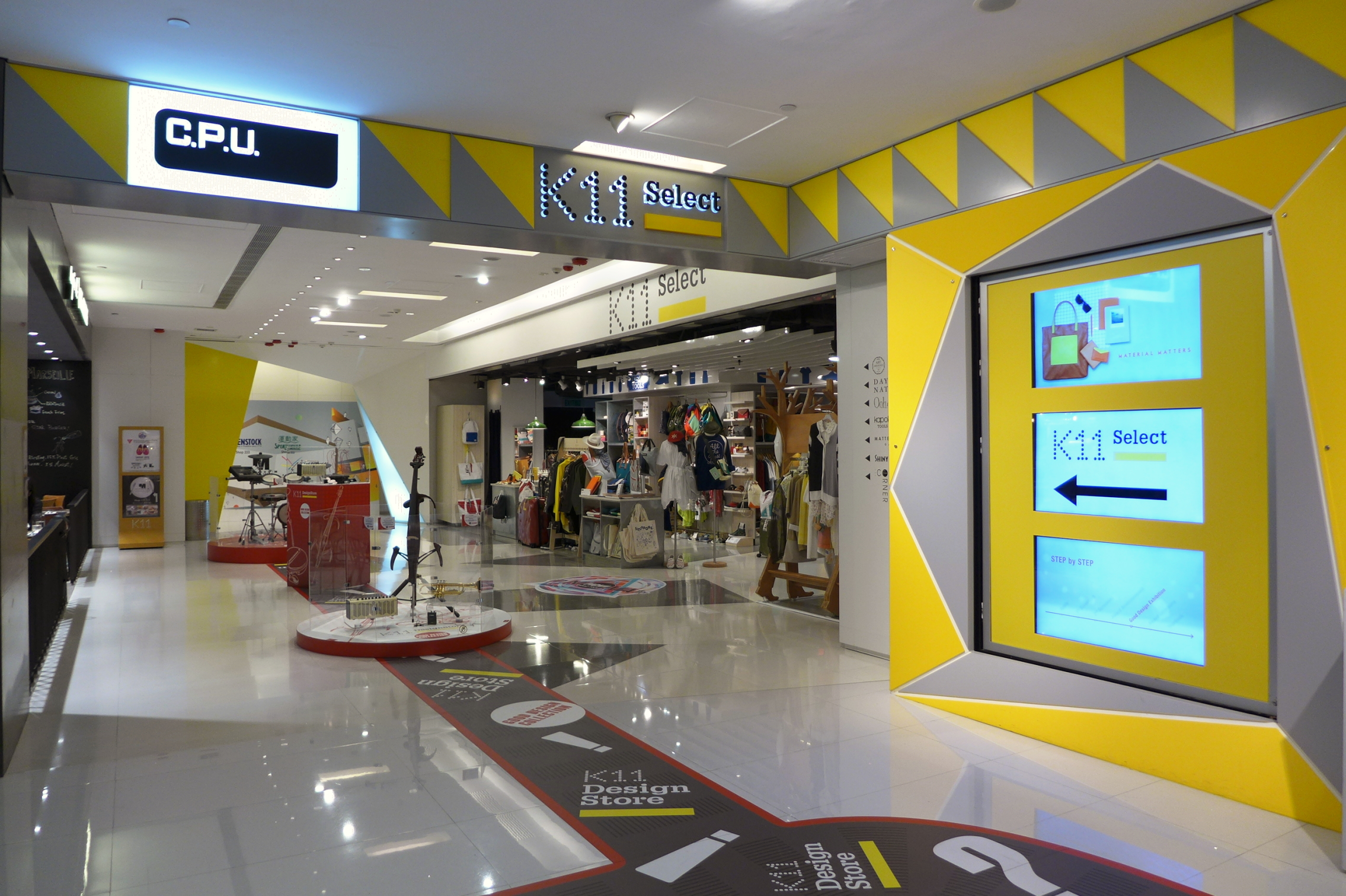 K11 select